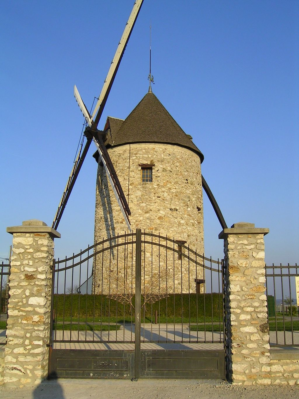 Le Moulin Photo personnelle (own work) de Marianna